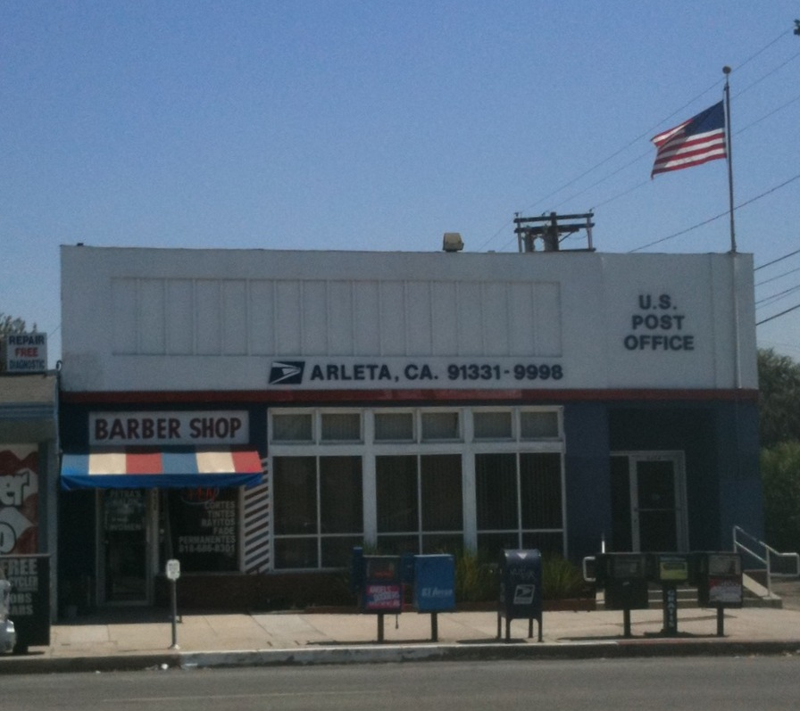 United States Post Office in Arleta, Los Angeles, California